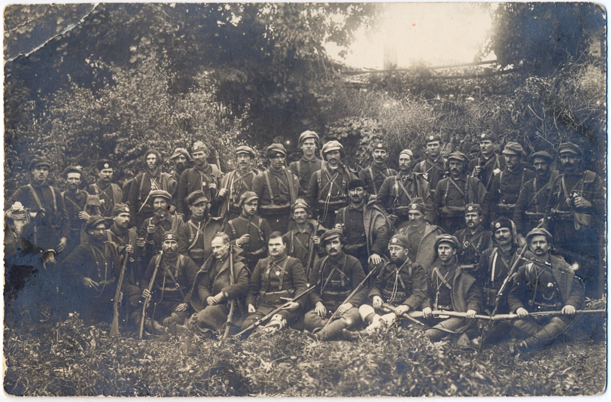 The squad of Georgi Vandev and Milan Postolarski